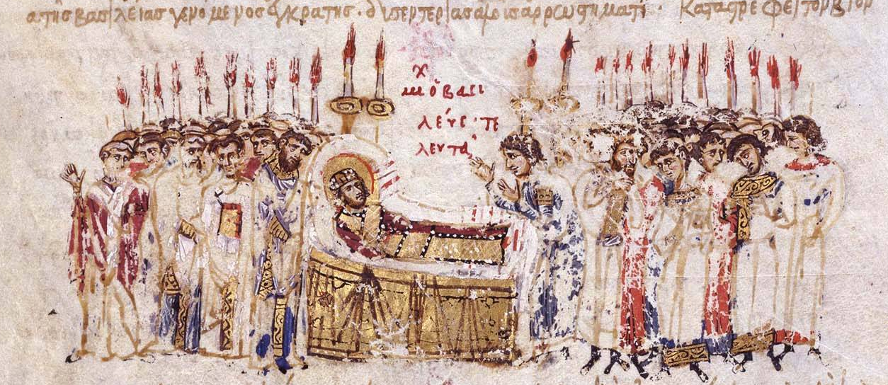 The death of Byzantine emperor Michael II in 829. Madrid Skylitzes Fol. 42ra